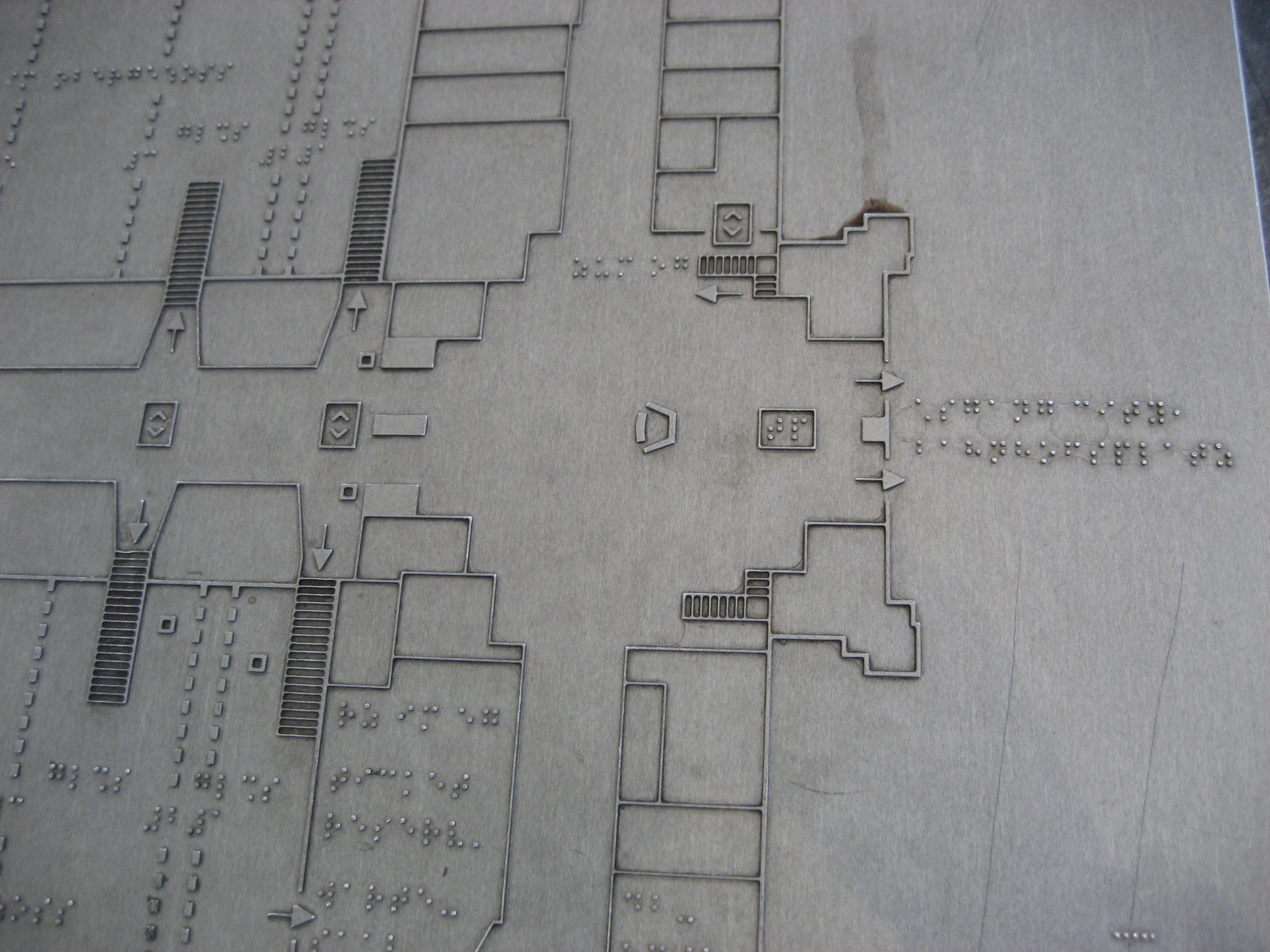 relief map of Hannover main station